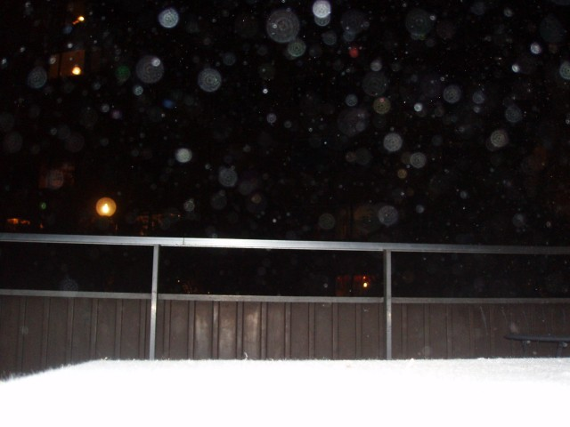 Image with many orbs